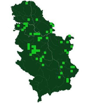 Orthetrum bruneum - mapa rasprostranjenja u Srbiji